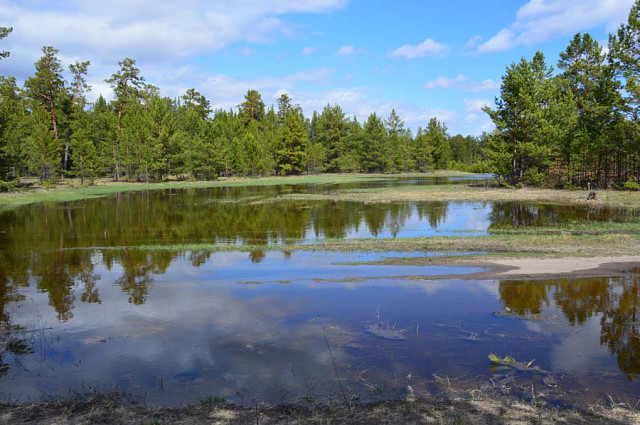 reka baklaniha